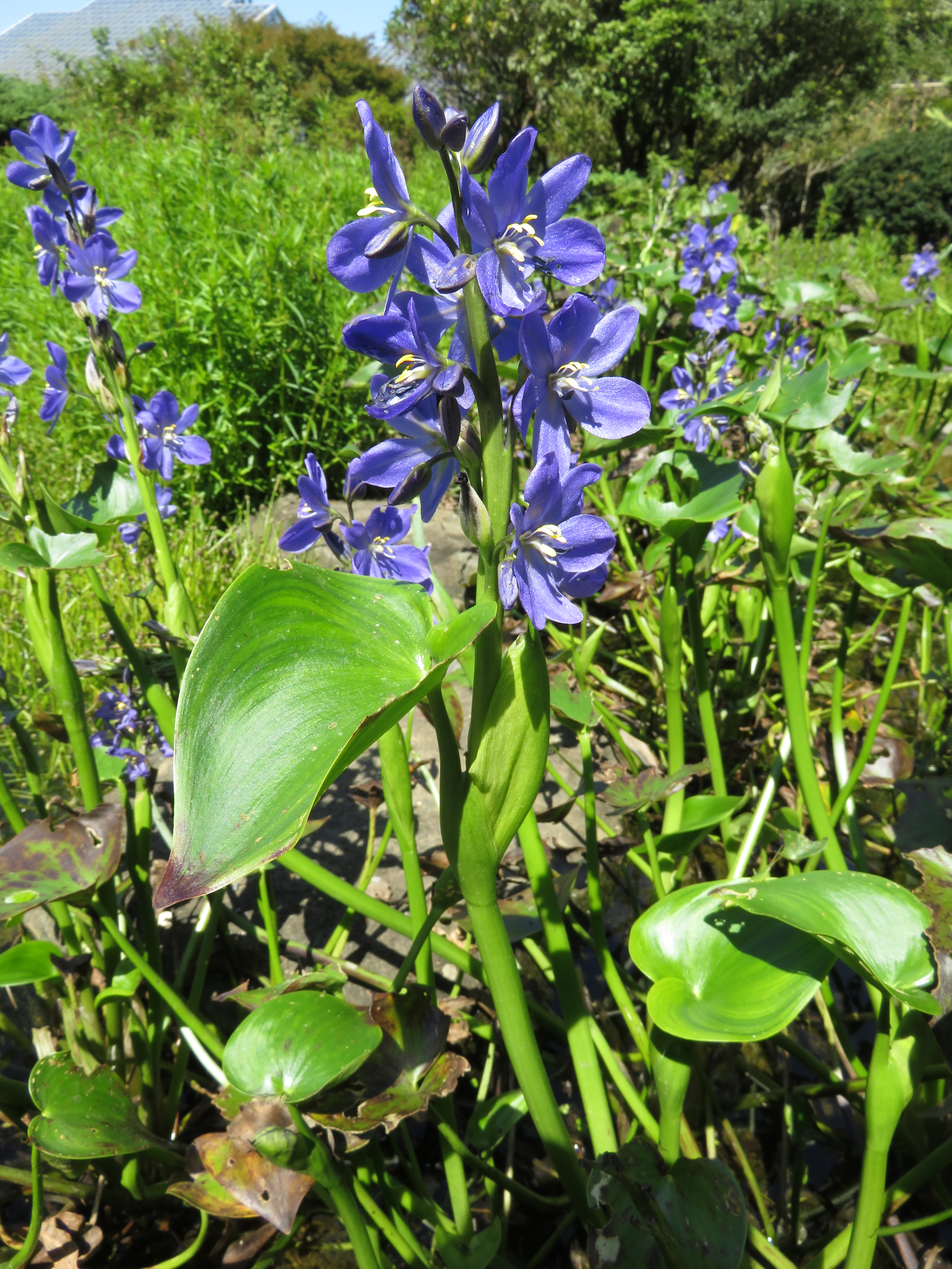 Monochoria korsakowii, Tsukuba Botanical Garden, Ibaraki pref., Japan